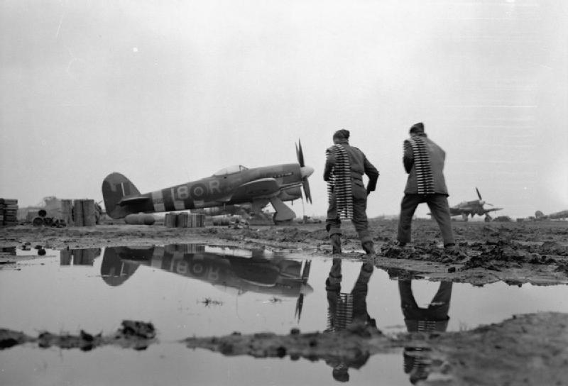 Two armourers of No 440 Squadron, Royal Canadian Air Force, trudge through the mud of an airfield near Eindhoven to re-arm a Hawker Typhoon fighter-bomber.